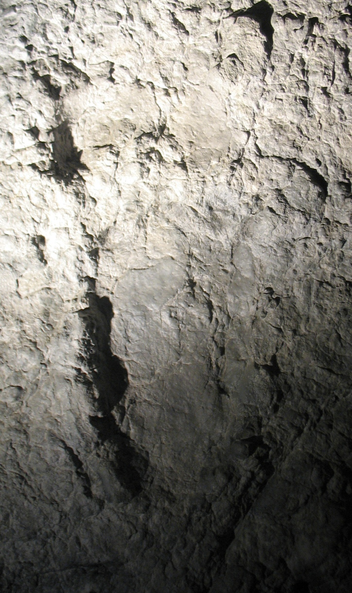 Replica of Deltapodus ibericus (Ichnotaxon) at Dinópolis. Foot (below) and hand (above) imprints of a stegosaurid dinosaur related to Dacentrurus. The original is located at the dinosaur footprints site of El Castellar, Teruel, Spain.